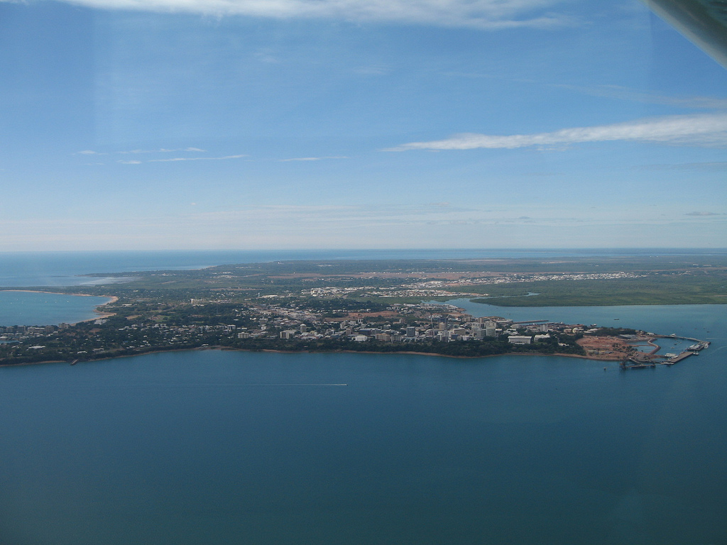 Aerial view of Darwin, Northern Territory over Darwin Harbour.